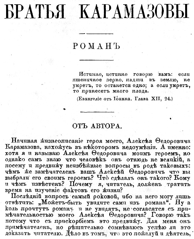 First page from the first edition of Brothers Karamazov by Fyodor Dostoevsky.